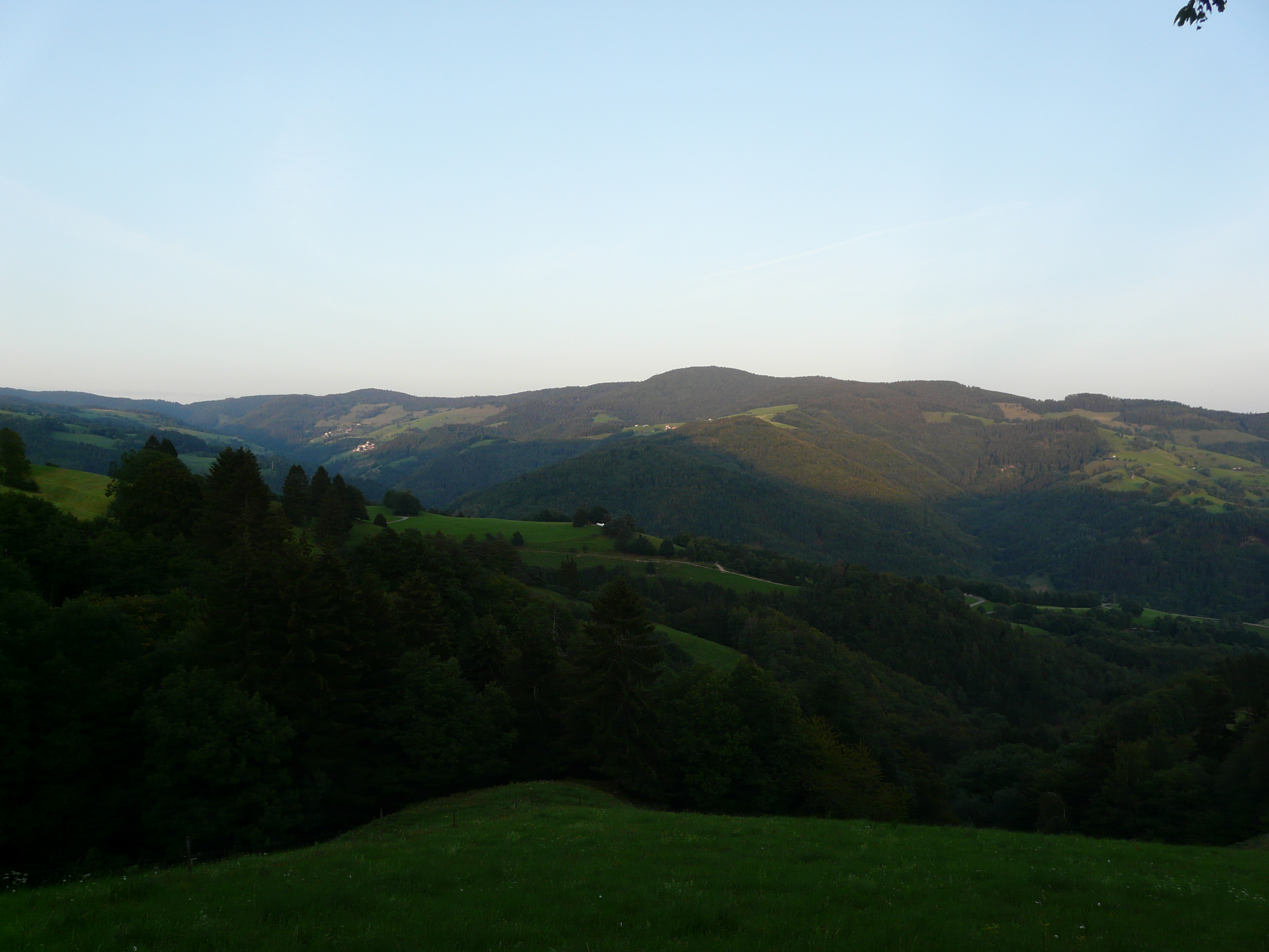 The mountains around Zell im Wiesental. The small villages belong to the communities Zell and Häg-Ehrsberg